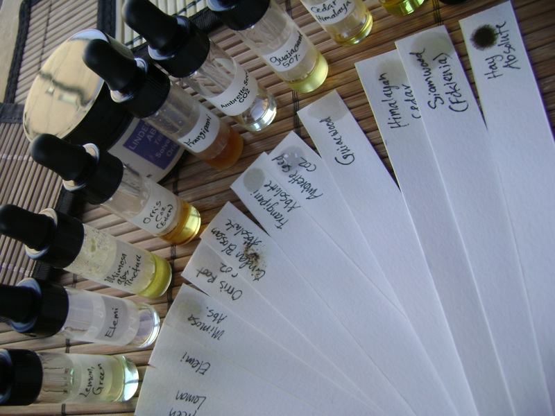 These are blotter strips used for designing perfume.